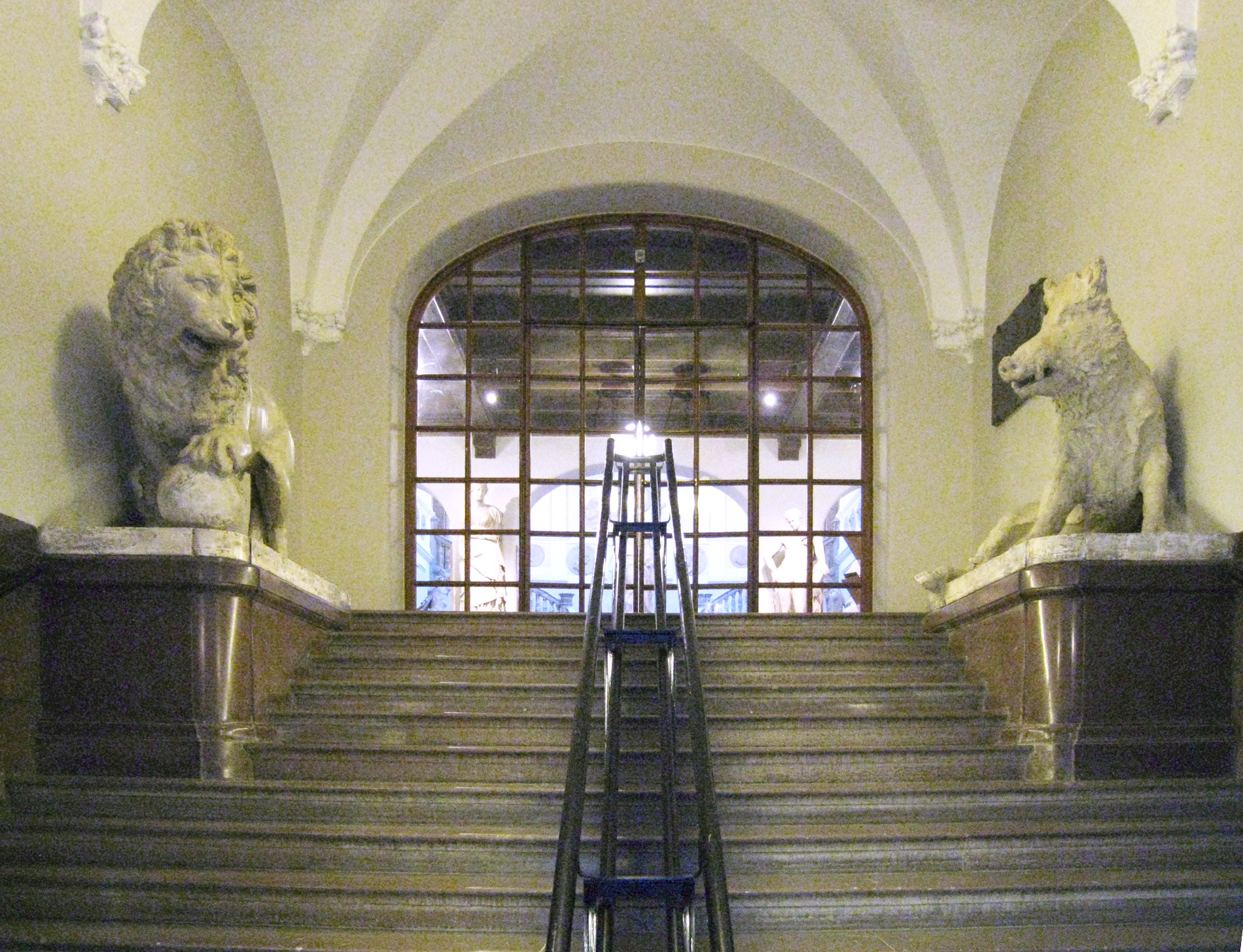 Royal Swedish Academy of Arts , Stockholm, Sweden. The entrance from Fredsgatan 12 with the entrance from Fredsgatan 12 with "The Lion and the Wild Boar" in the entryway.